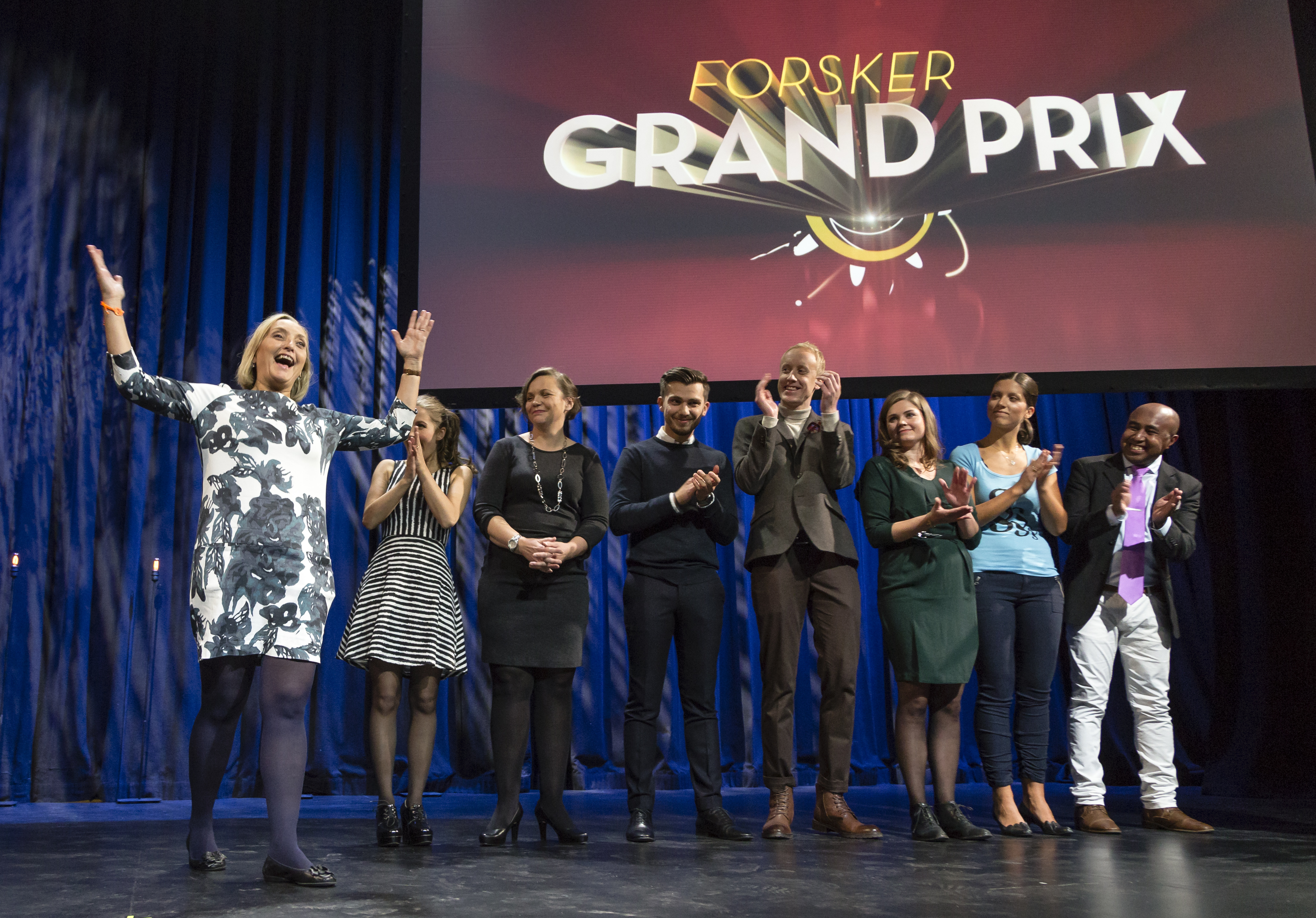 National final of the Forsker (=Scientist) grand prix competition and event 2015. The winner to the left: Cecilie Gudveig Gjerde, University of Bergen, Dept. of clinical odontology